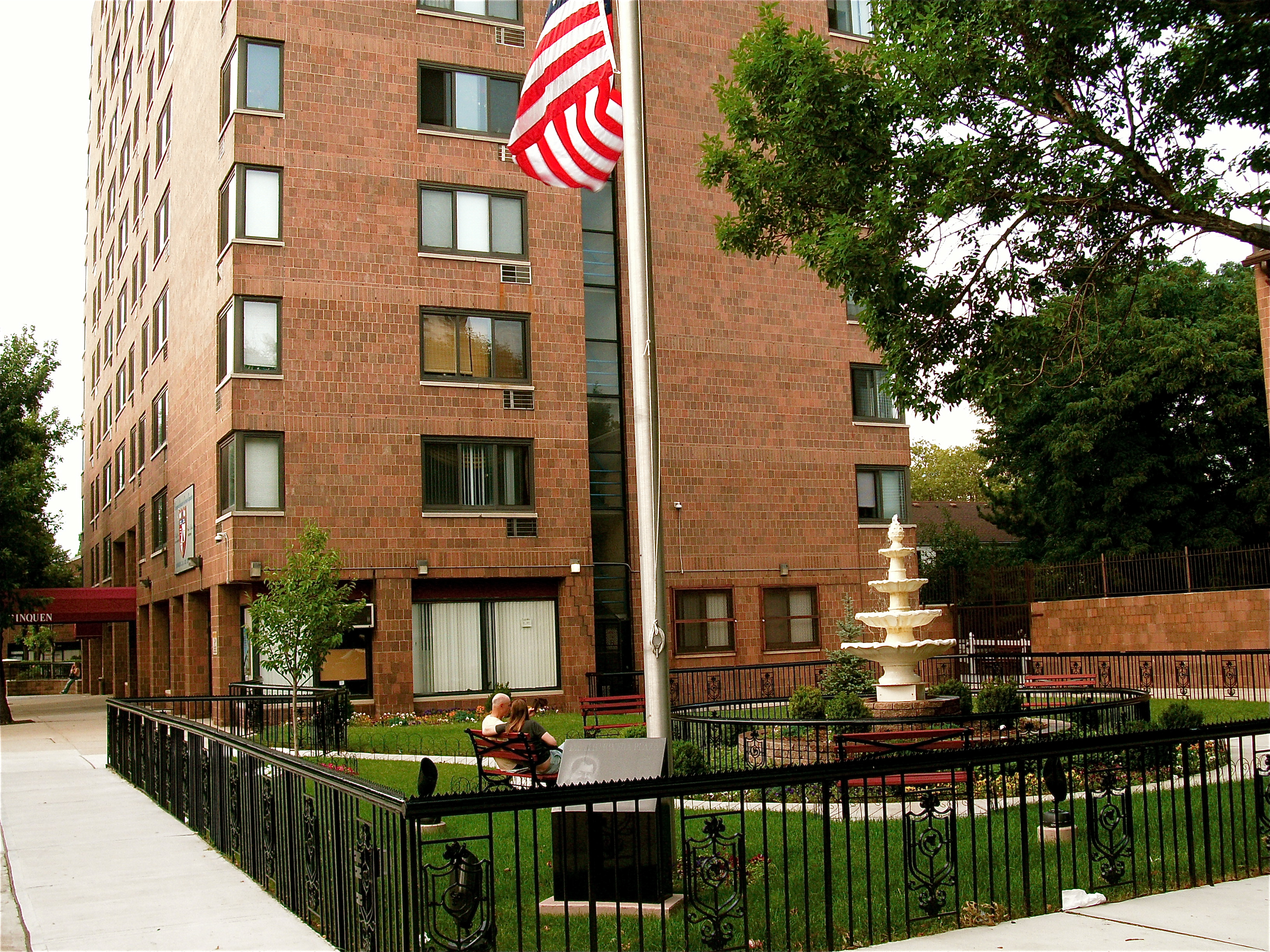 Fountain and Park on Second and Grove Street